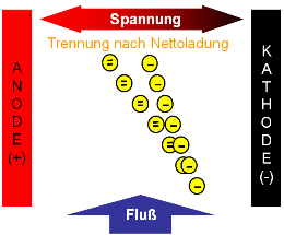 Schematische Darstellung der Zonenelektrophorese